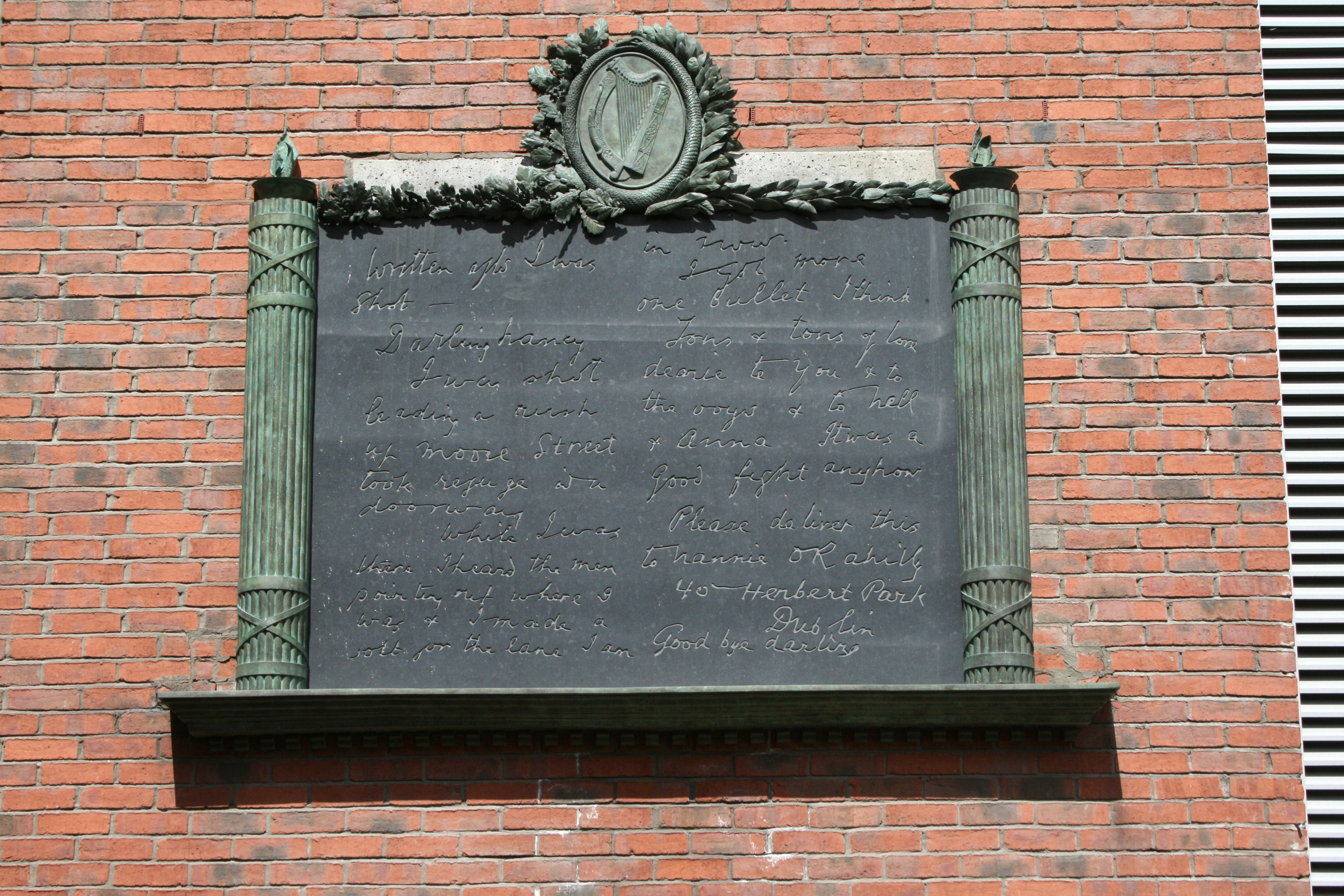 The place where The O'Rahilly fell in Easter Week 1916 is now the back of Jury's Hotel. The engraving is a copy of the letter he wrote to his wife as he was dying. The text reads: ‘Written after I was shot. Darling Nancy I was shot leading a rush up Moore Street and took refuge in a doorway. While I was there I heard the men pointing out where I was and made a bolt for the laneway I am in now. I got more [than] one bullet I think. Tons and tons of love dearie to you and the boys and to Nell and Anna. It was a good fight anyhow. Please deliver this to Nannie O' Rahilly, 40 Herbert Park, Dublin. Goodbye Darling.’